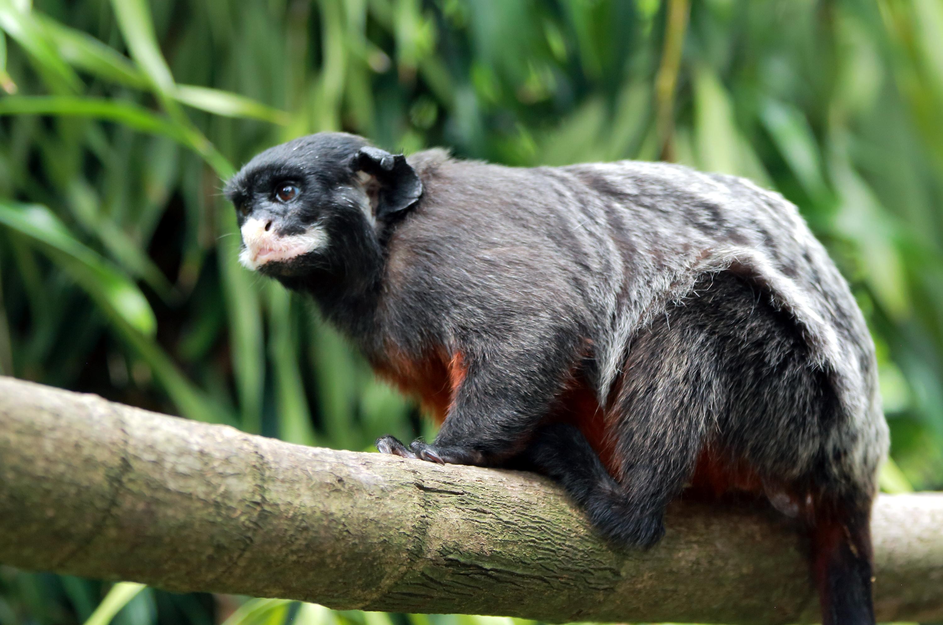 Red-bellied tamarin (Saguinus labiatus) in Singapore Zoo.